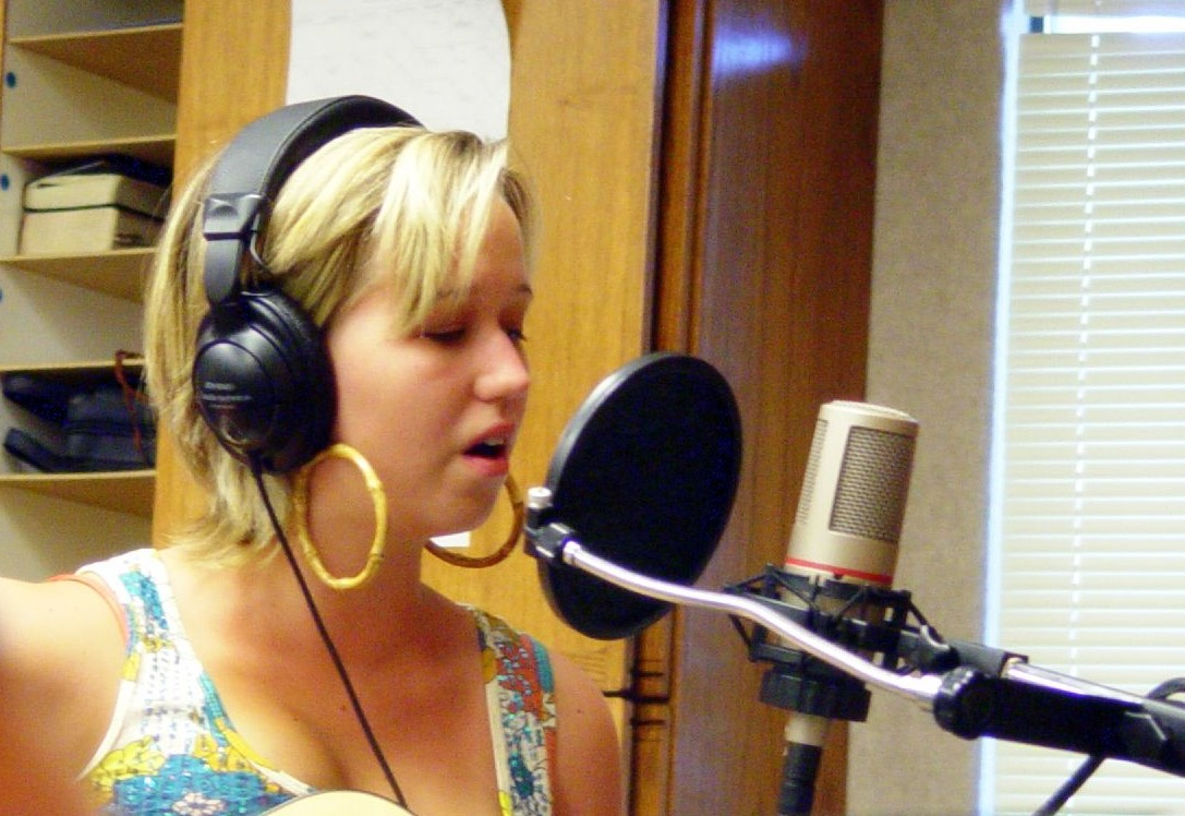 A singer in front of a pop filter and AKG C4000B microphone.